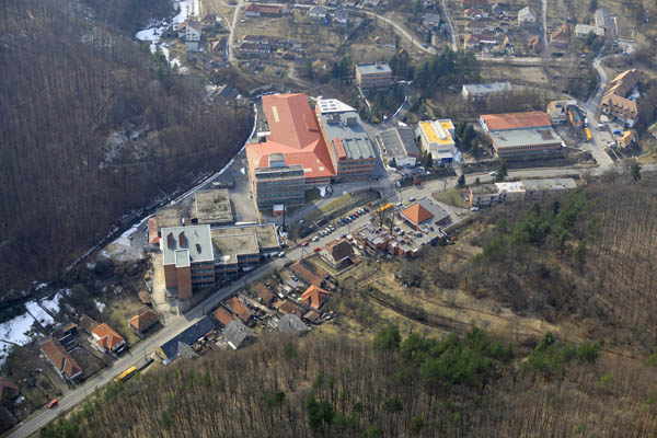 Hollóháza, Hungary, aerial photography